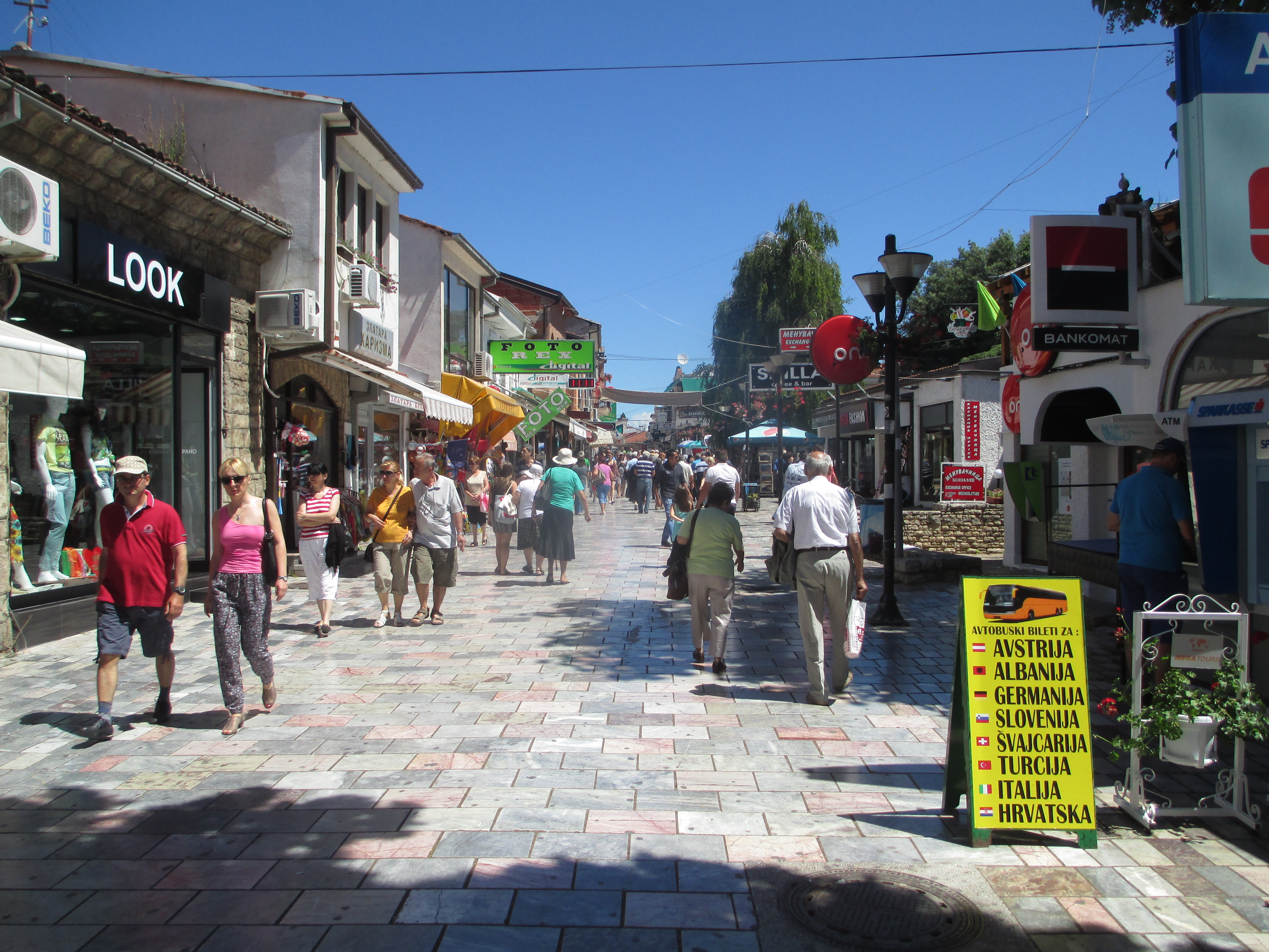 Ohrid